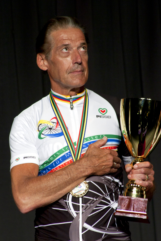 Worldchampionship Time Trial Masters 60+ Sankt Johann in Tirol, Austria 2011